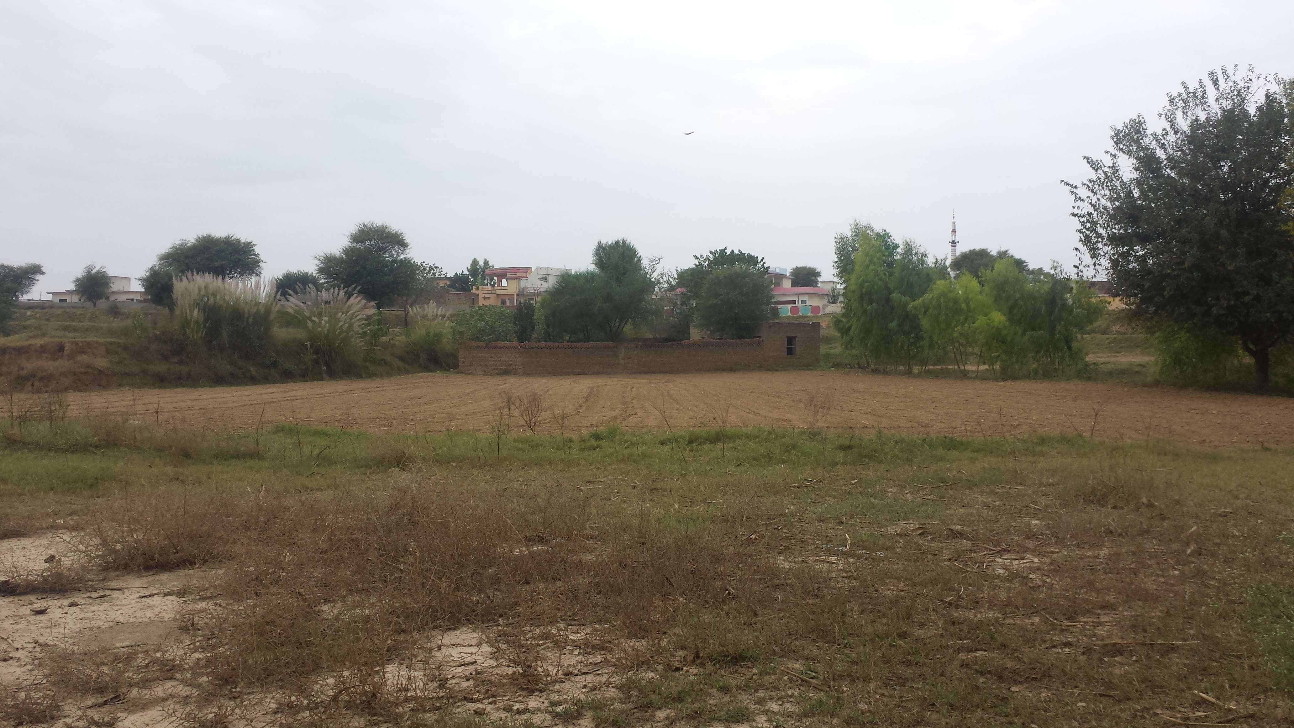 Outer East side of Khinger Kalan